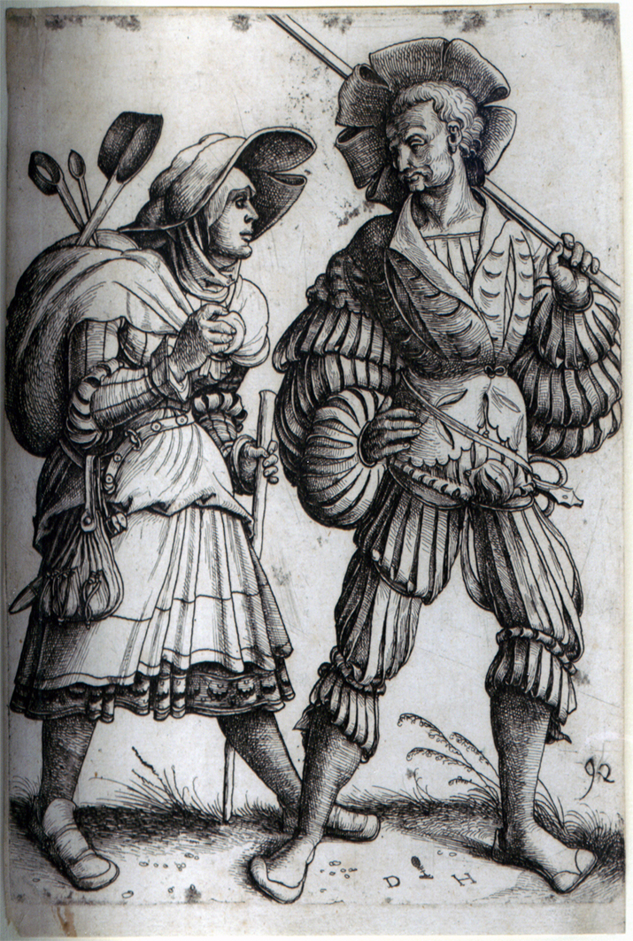 The Soldier and his Wife (B VIII, 62, Holl.70, ii/ii). Etching, a good strong impression though with corrosion marks at edges of plate, with margin or thread margin on three sides, trimmed on the platemark upper left edge and lower right edge, repaired tears in left corners, corners thin. With Funck number 92.